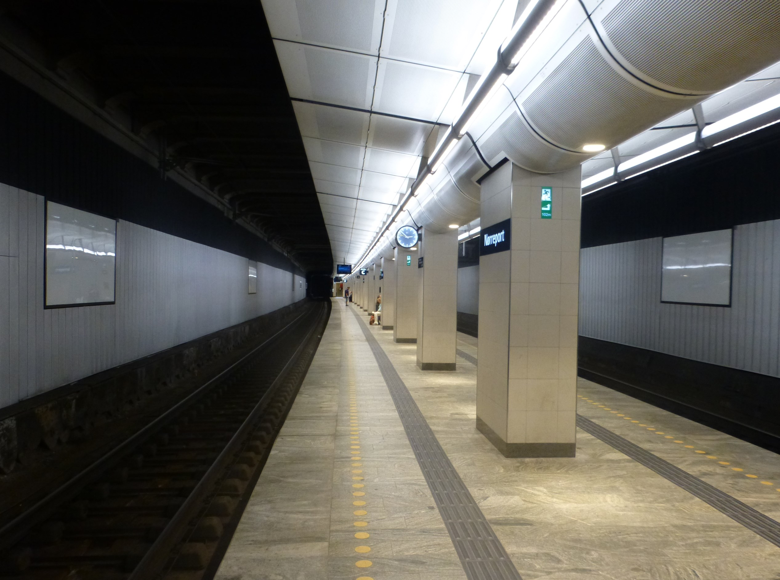 Nørreport Station in Indre By in Copenhagen. Platform for regional and InterCity trains.